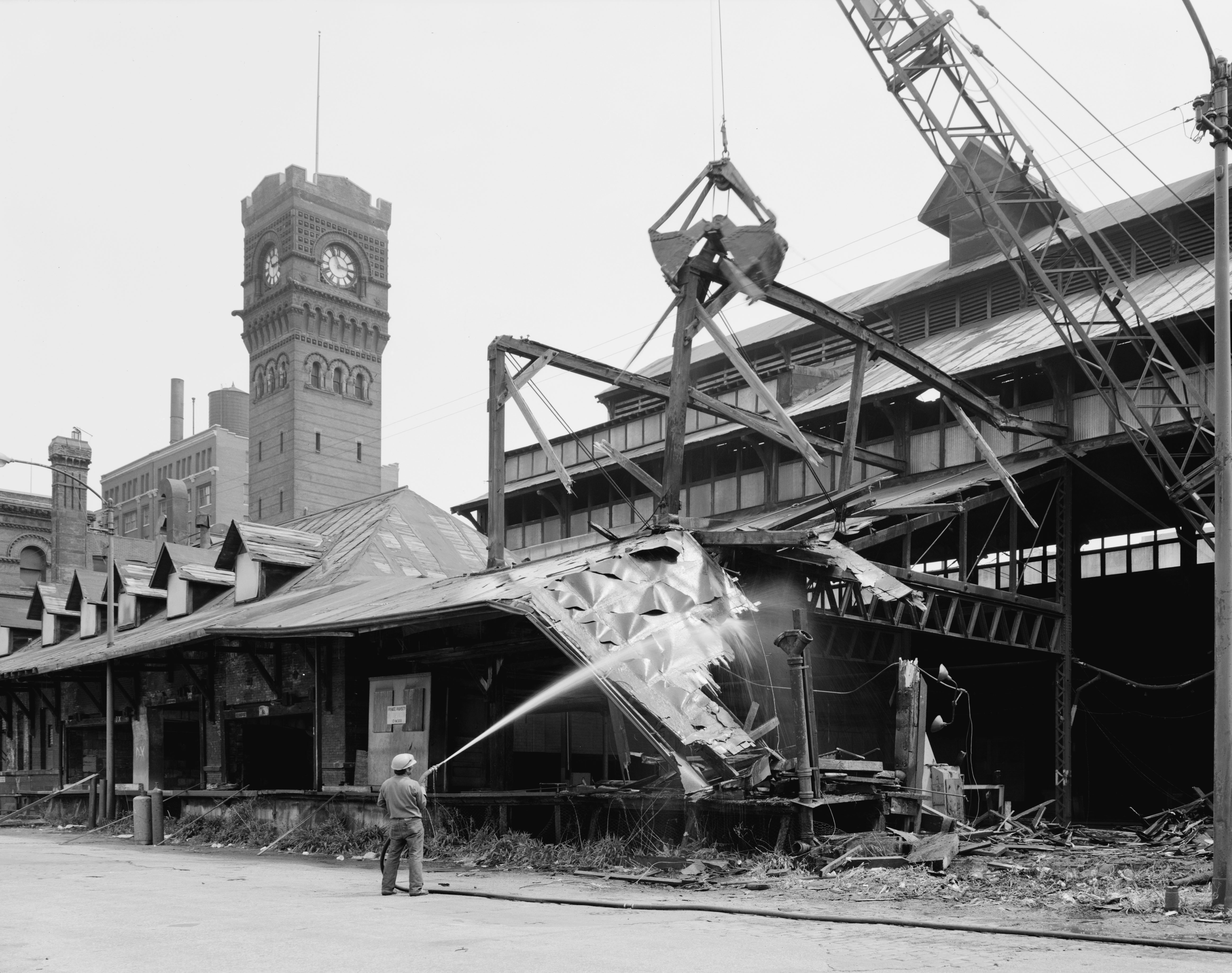 Chicago's Dearborn Station, taken May 1976 by Hedrich-Blessing.